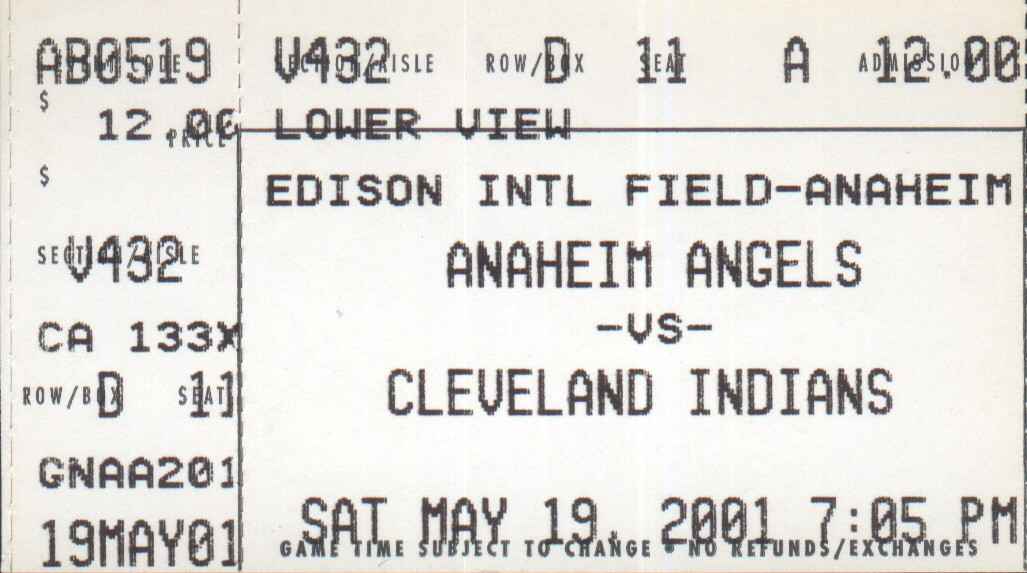 A ticket for a May 19, 2001 Major League Baseball game featuring the Cleveland Indians versus the Anaheim Angels at Edison International Field of Anaheim.